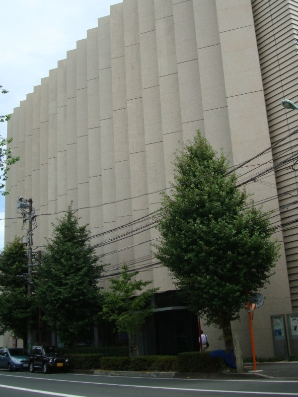 The Yamatane Museum, Shibuya, Tokyo